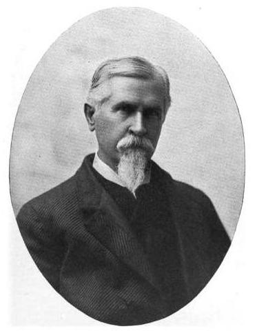 Tennessee Governor James D. Porter (1828–1912)